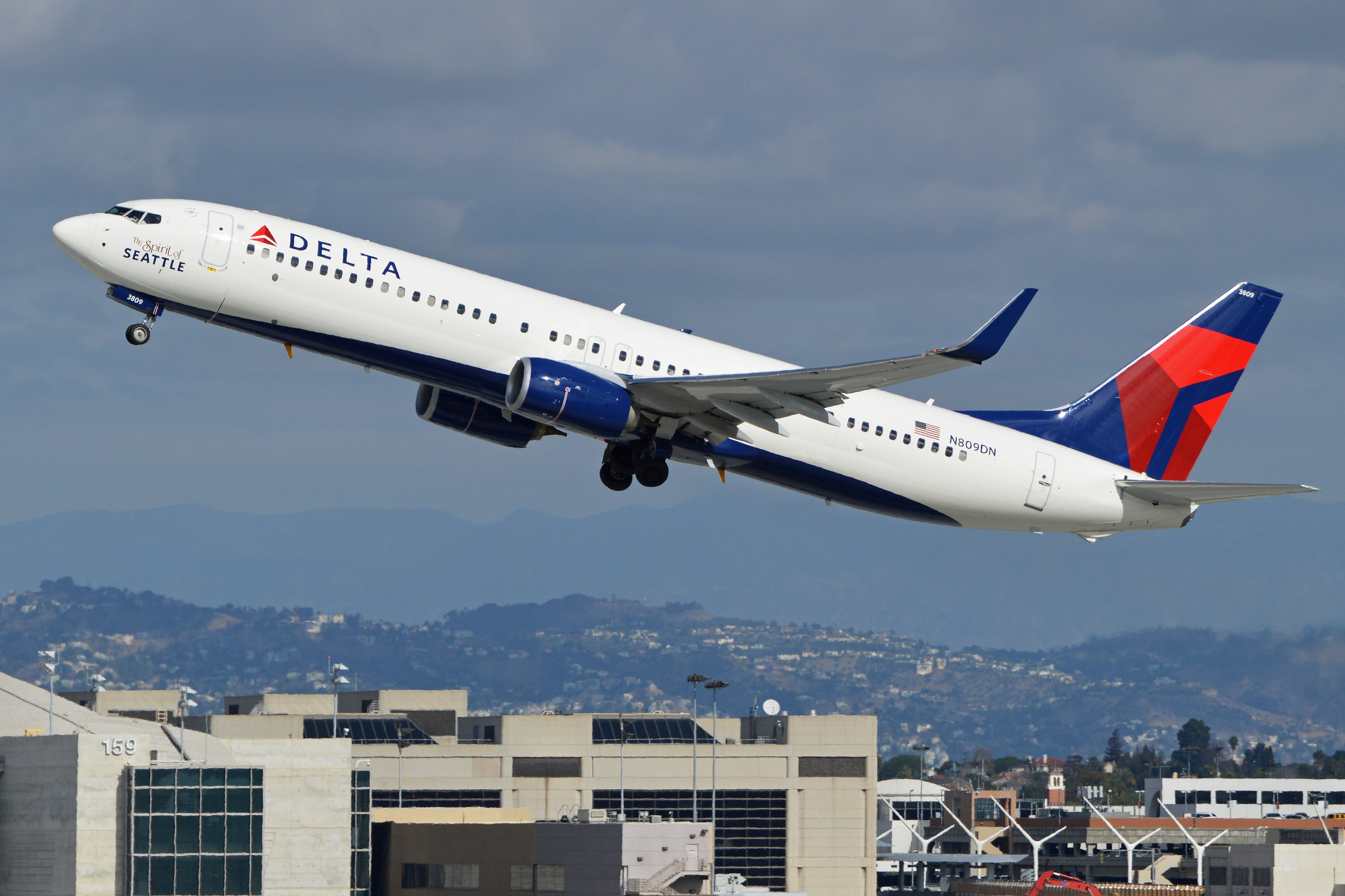 c/n 31915, l/n 4704. Built 2013. Seen departing LAX and taken from the Imperial Hill spotting location. Los Angeles, California, USA. 08-2-2014